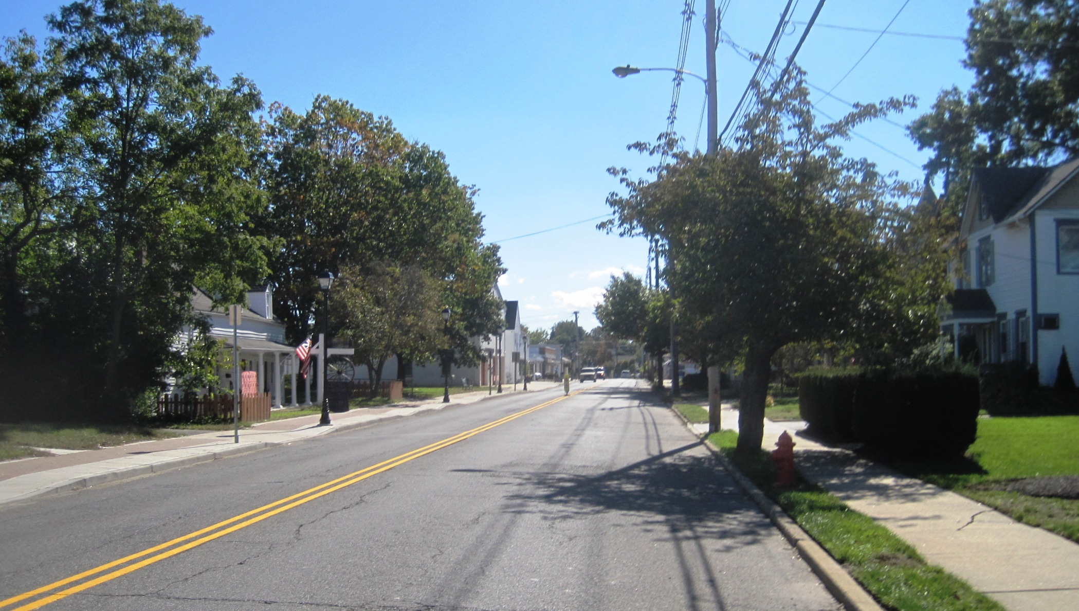 Photo showing downtown Farmingdale, New Jersey looking south along Main Street (County Route 524/CR 547) past Southard Avenue.